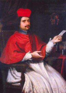 Portrait of cardinal Flavio Chigi (1631-1693)